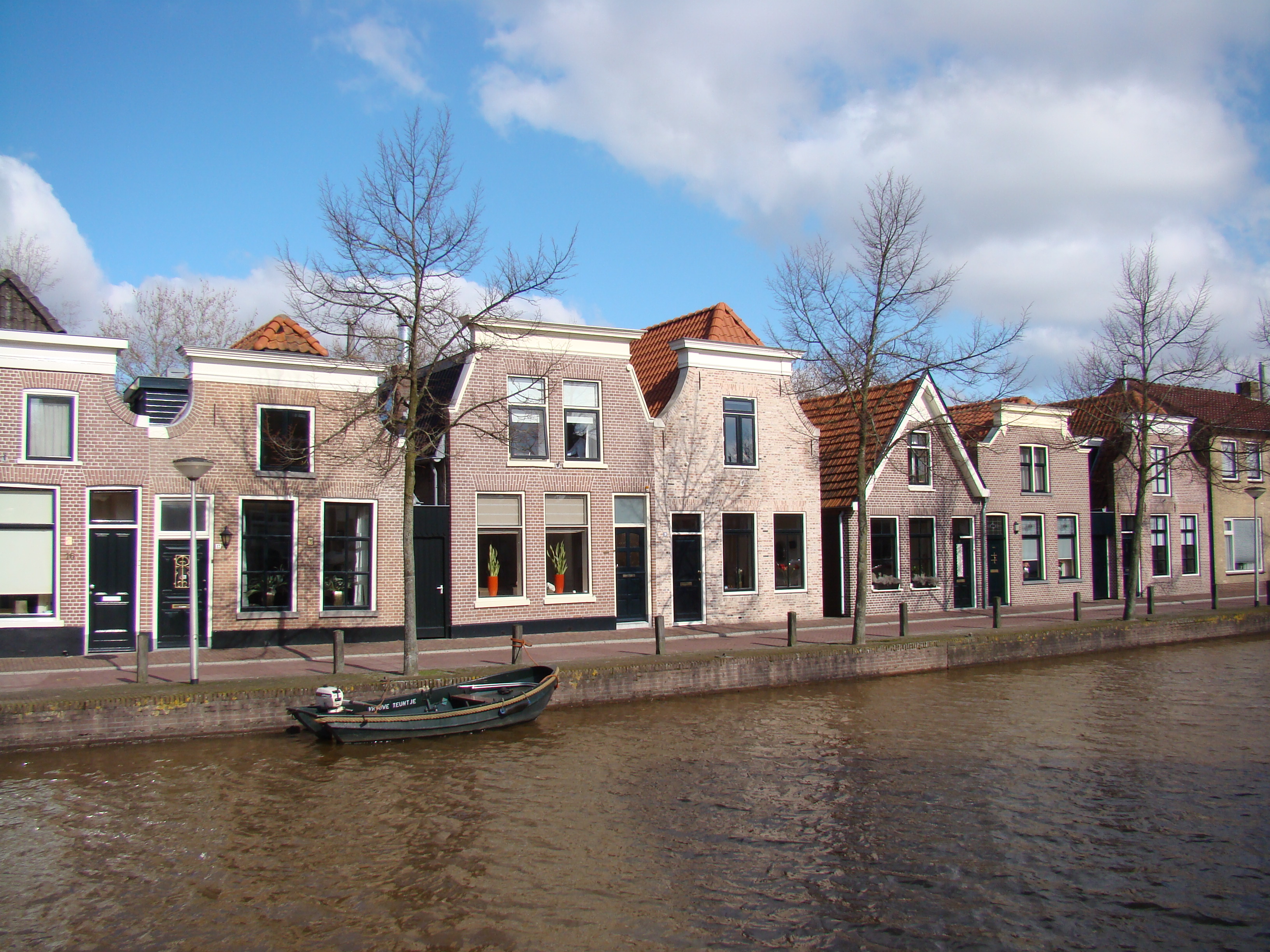 Little houses at Meppel Netherlands